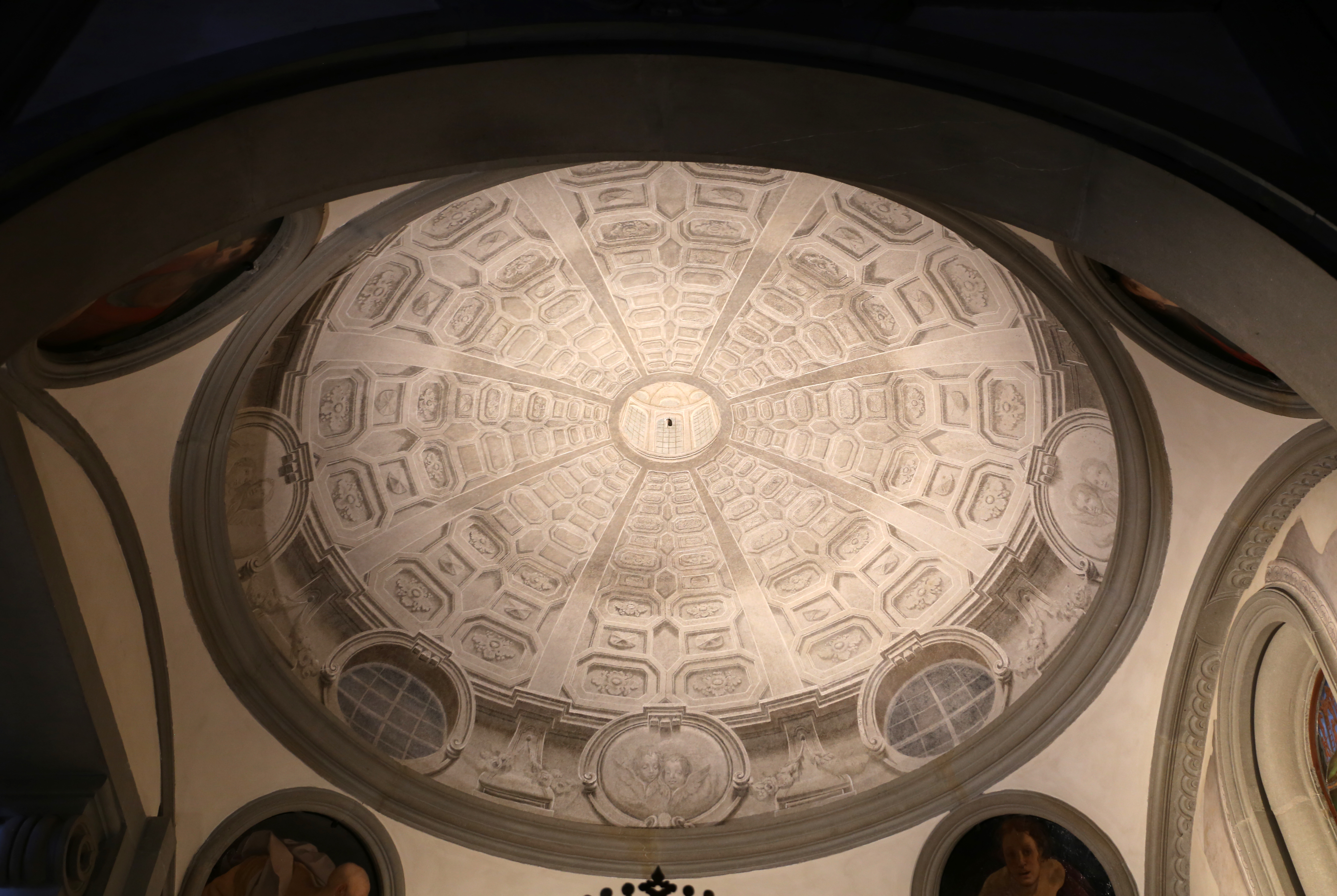 Santa Felicita (Florence) - Interior